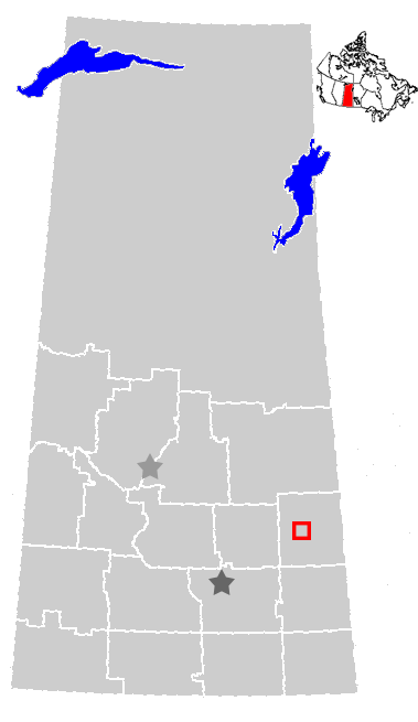 Location of Yorkton, Saskatchewan